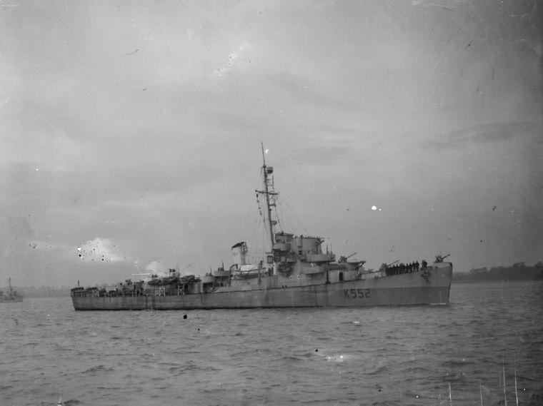 Photograph of Captain class frigate HMS Ekins, off Harwich.